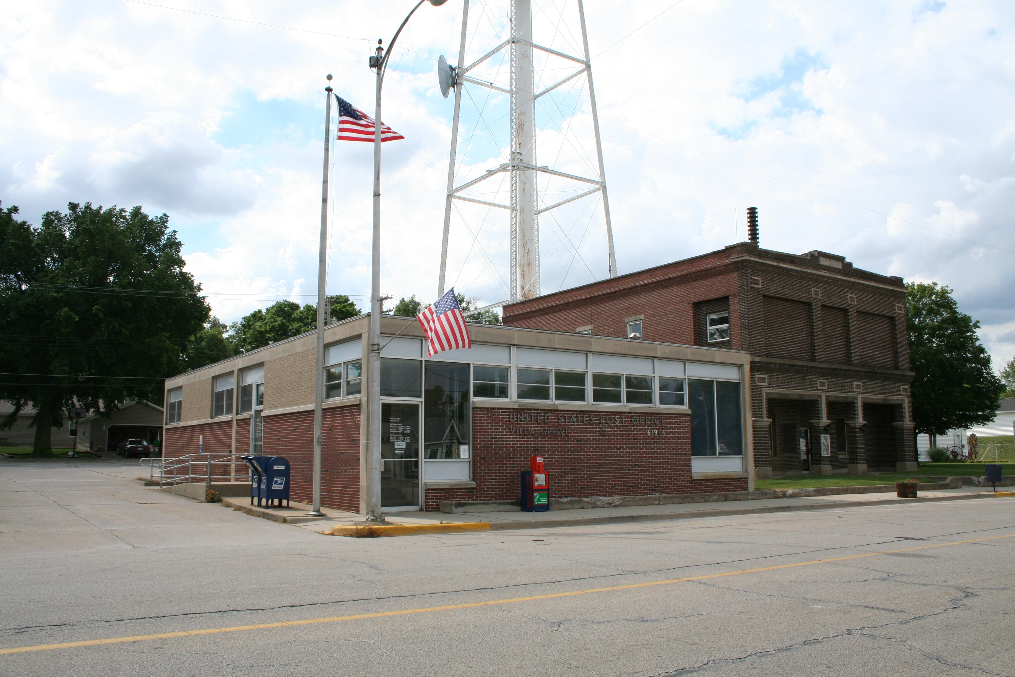 Villa Grove, Illinois Post Office, and Police station at right.